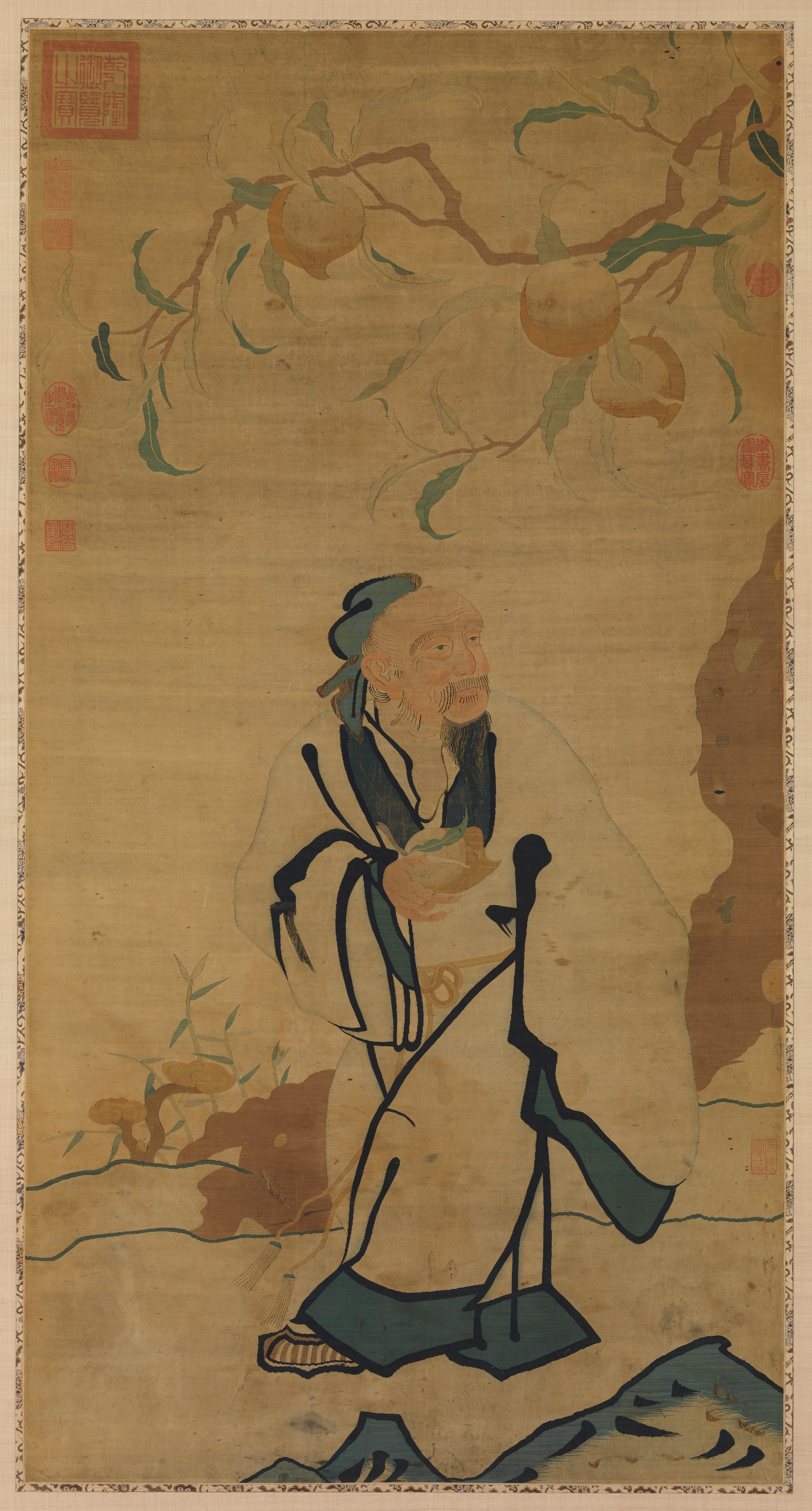 Silk tapestry from the Ming dynasty of Dongfang Shuo stealing a peach of immortality. The legend is based on the historical Dongfang Shuo, (c. 160 BC – 93 BC), a Han dynasty official who worked in the court of Emperor Wu.